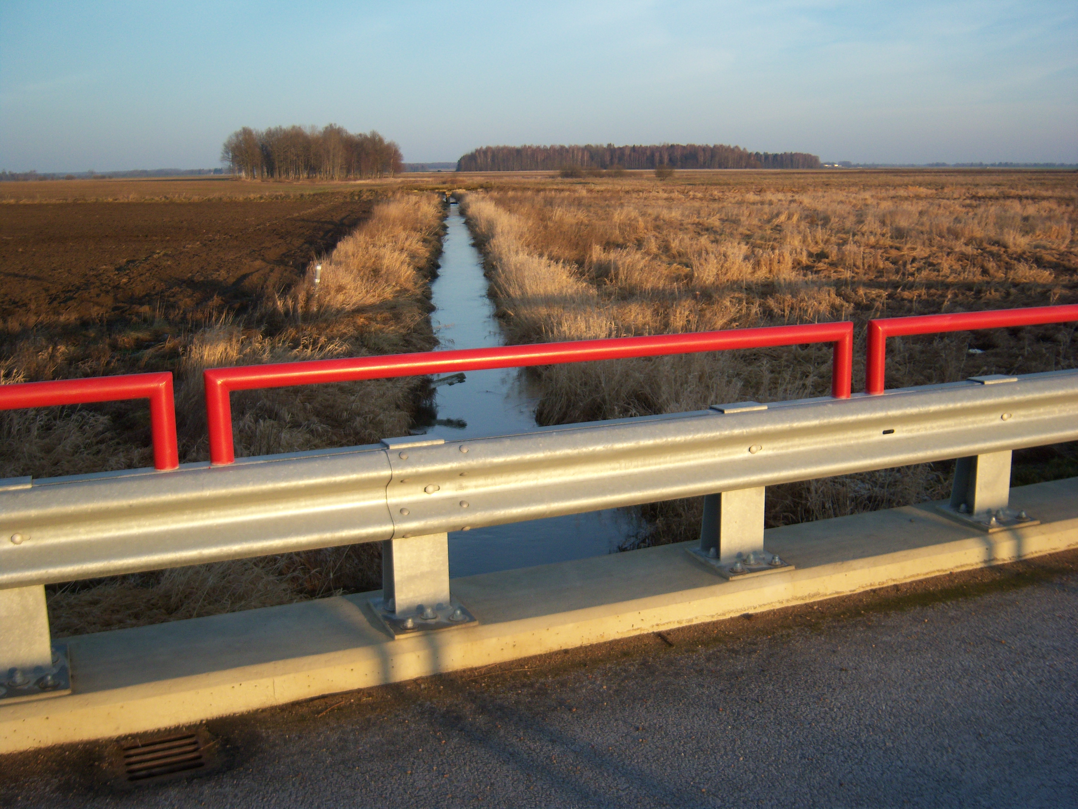 Šlyna River, Raseiniai District, Lithuania